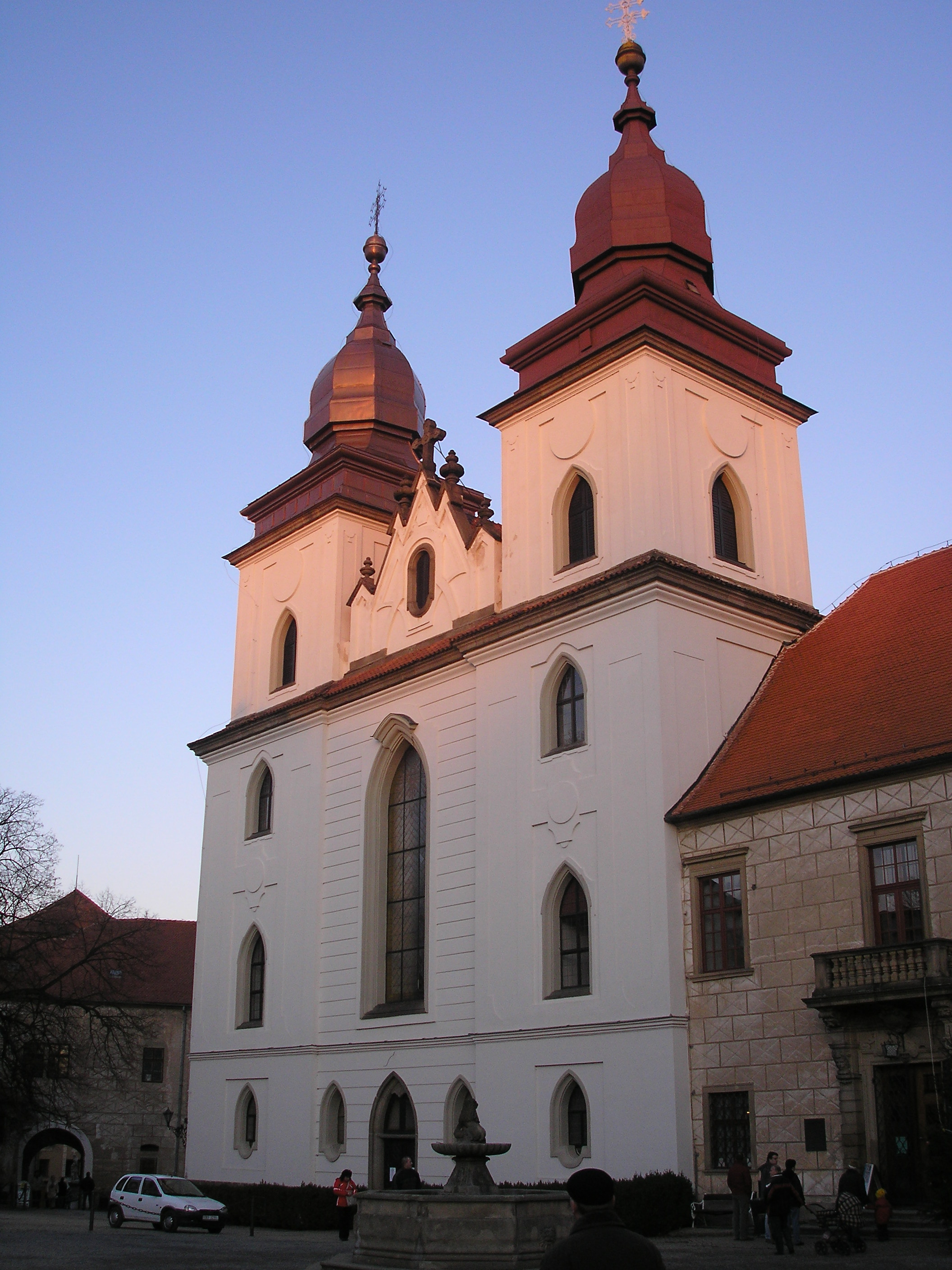 Třebíč-Podklášteří. St Procopius' Basilica. Western frontage